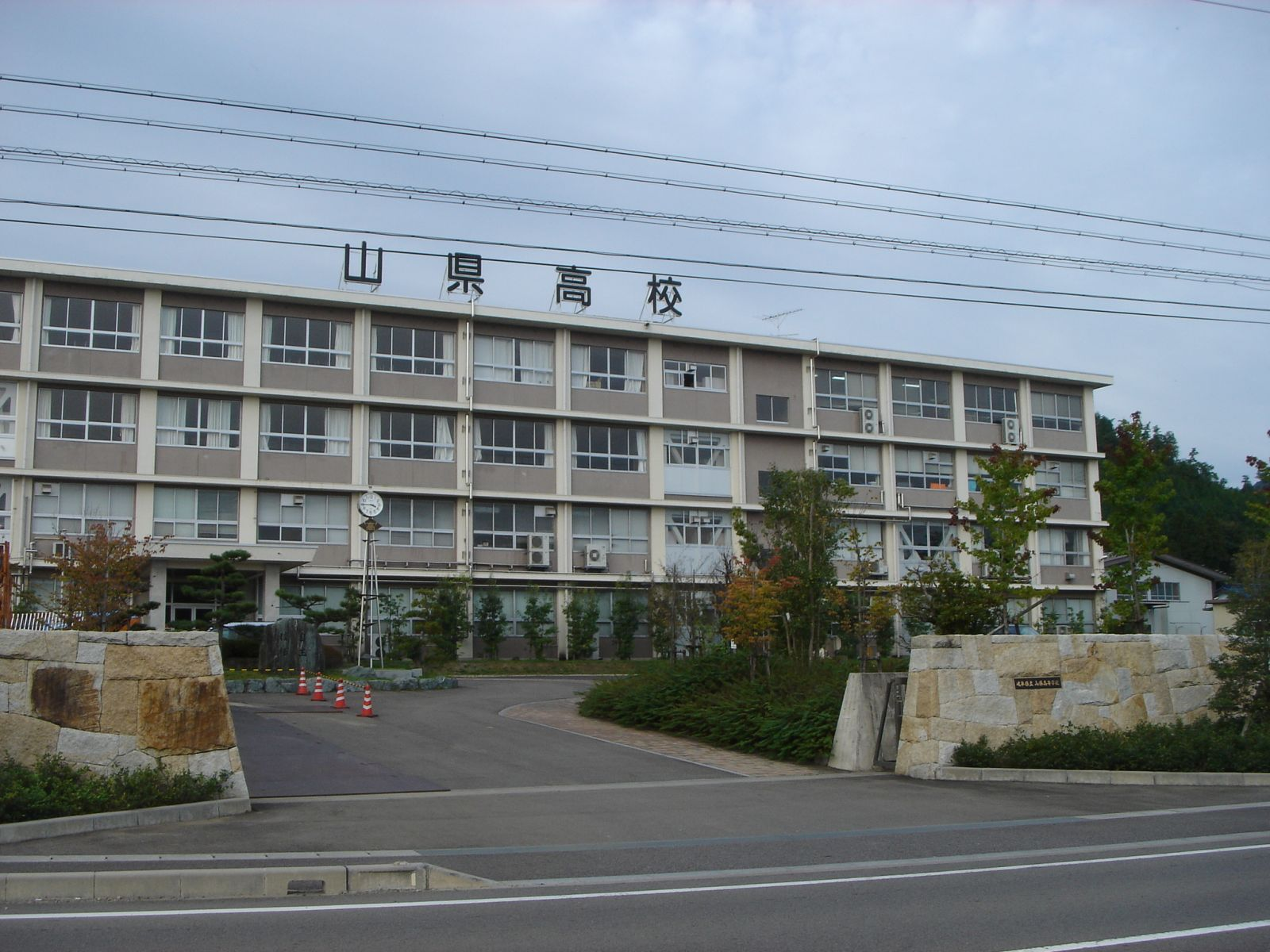 Gifu Prefectural Yamagata High school（岐阜県立山県高等学校）,Yamagata,Gifu,Japan(岐阜県山県市)で撮影。